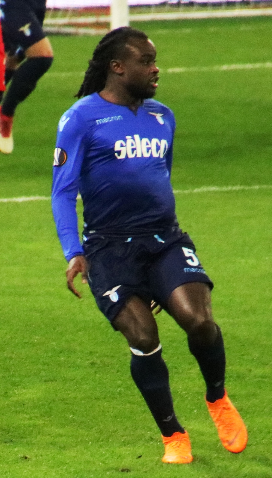 UEFA euro League Quarterfinal 2nd leg